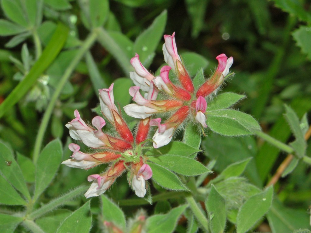 Dorycnium hirsutum - Genova, Italy